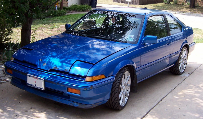 1987 Acura Integra, better-than-typical example but with aftermarket wheels.